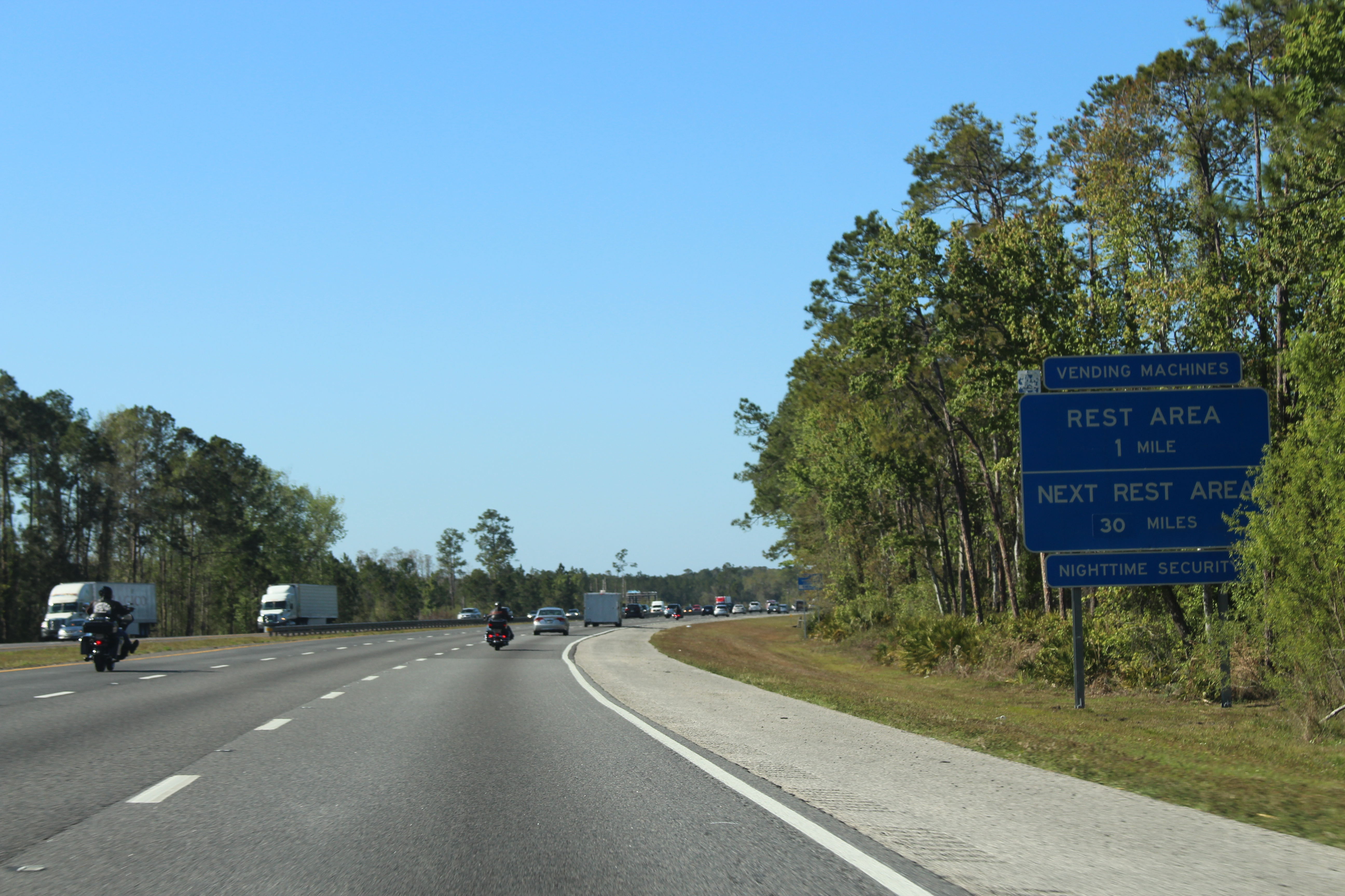 Interstate 95 rest area 20331, St. Johns County, Florida